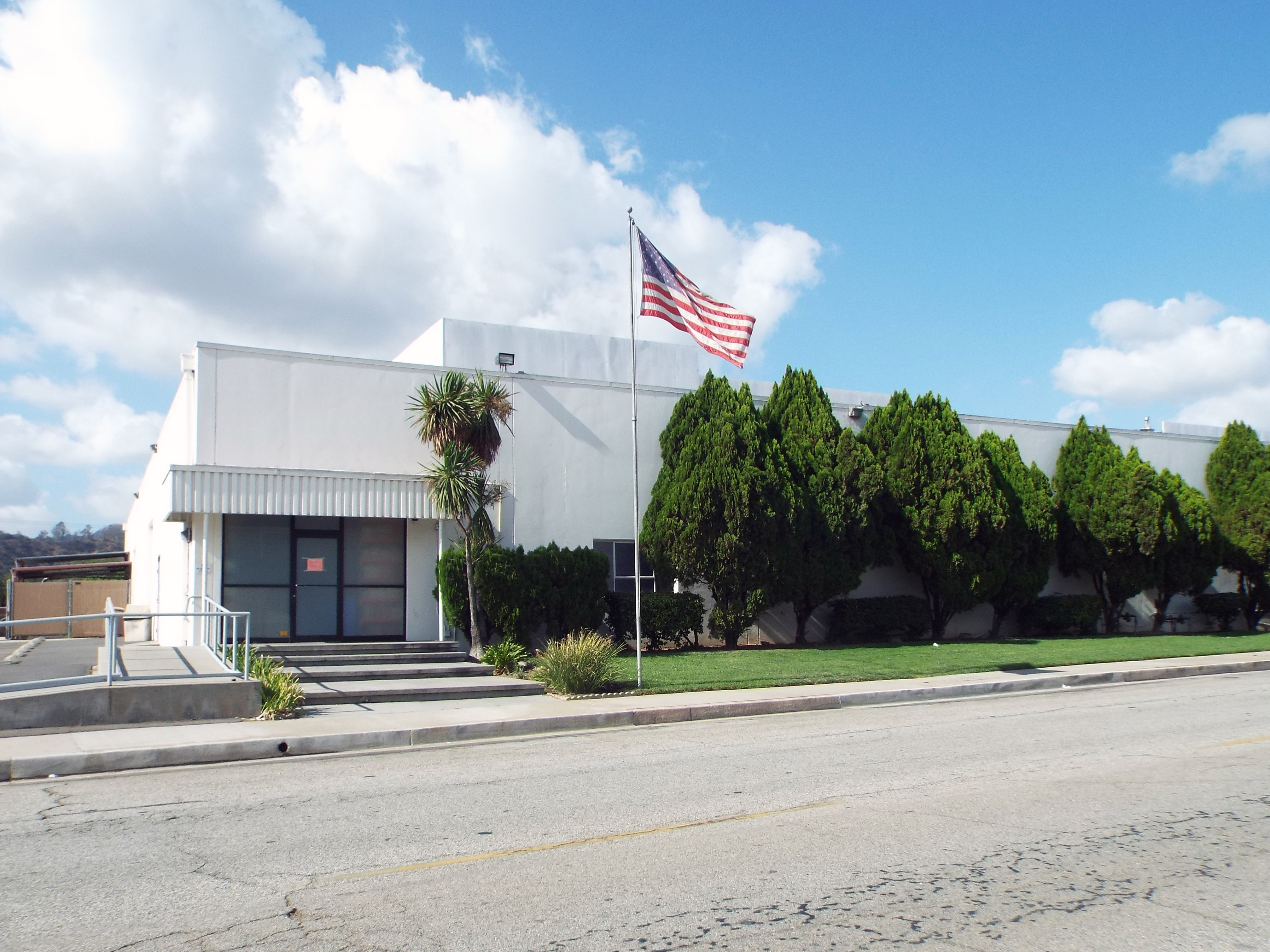 1400 Air Way, Glendale, California. Photographed on September 27, 2014 by user Coolcaesar.